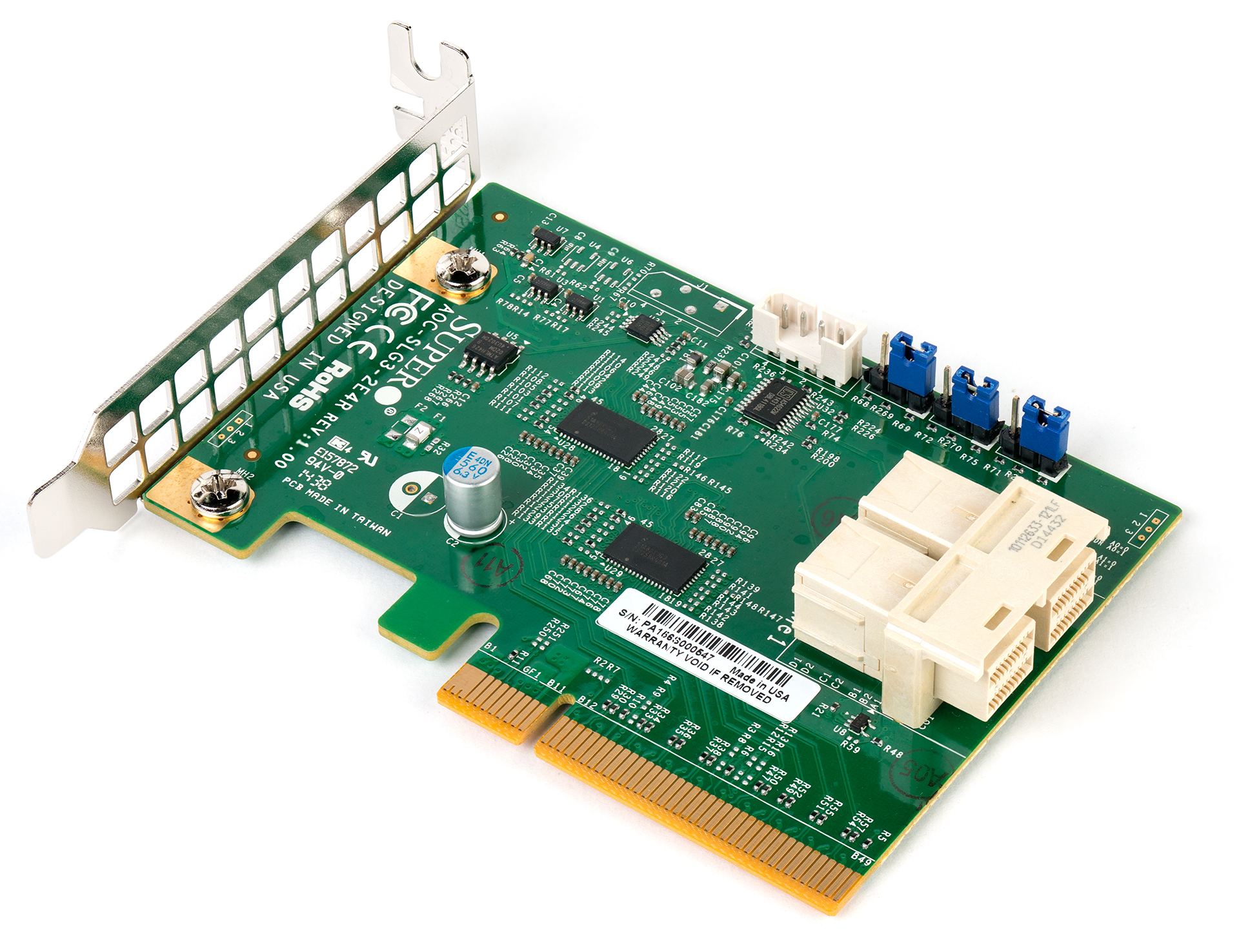 Supermicro AOC-SLG3-2E4R. Dual port NVM Express retimer, PCIe 3.0 x8 card. Two SFF-8643 connectors, each providing 4 PCIe lanes.